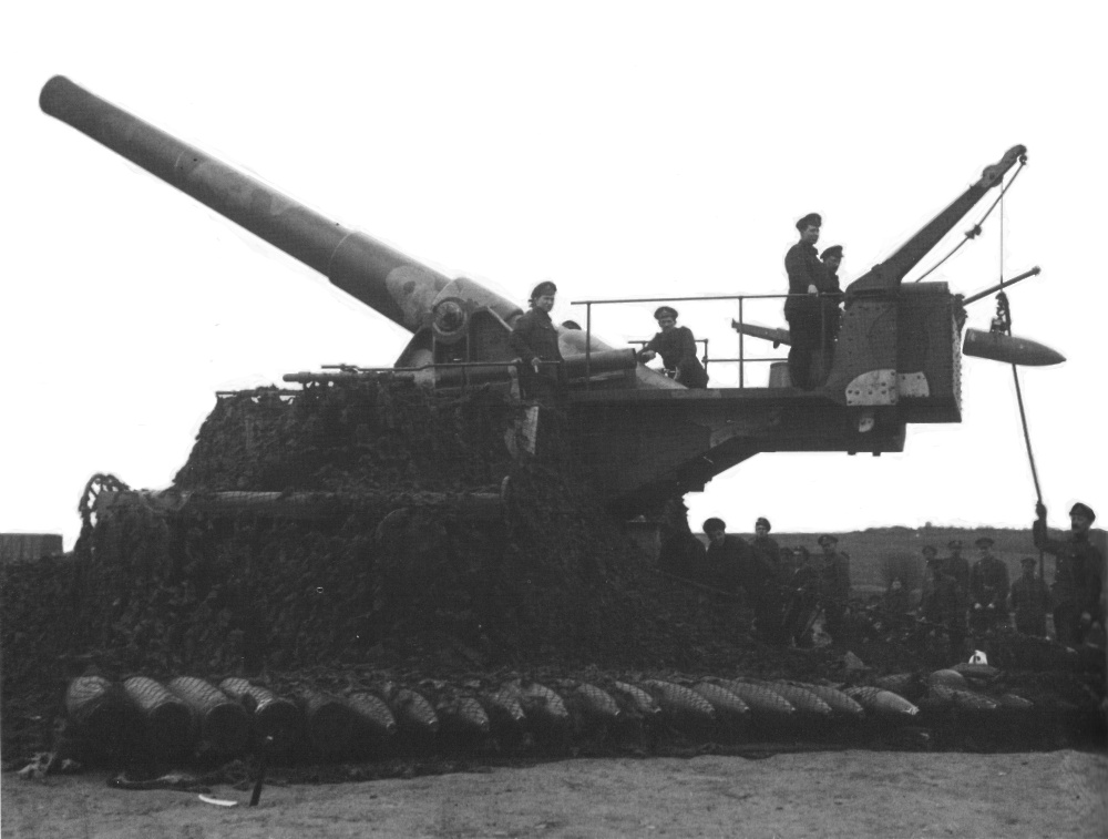 British BL 9.2 inch Mk XIII railway gun in action, France, circa. 1917-1918. Camouflage netting can be seen covering most of the gun's carriage, the railway truck and ammunition supply.